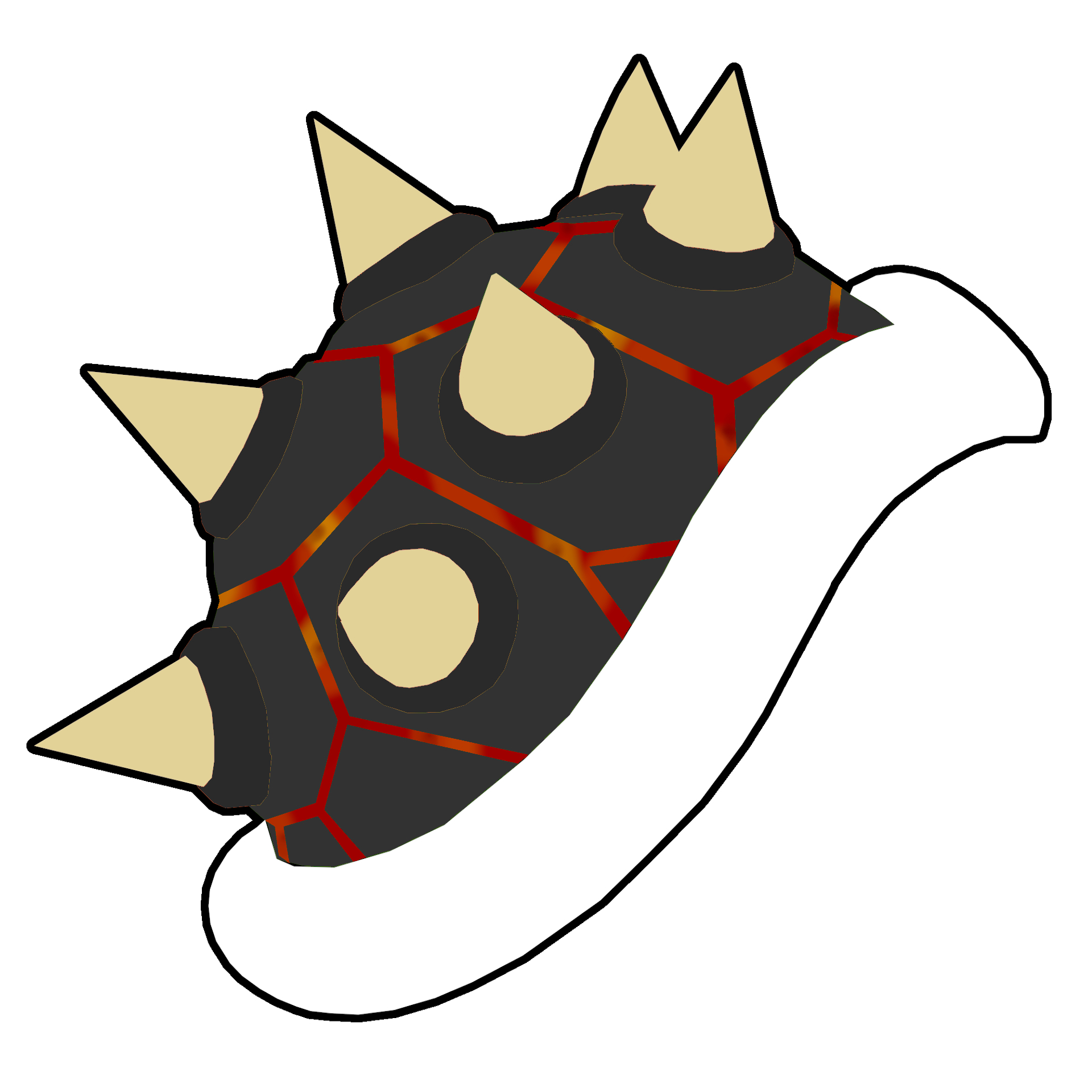 Dry Bowser Sell simplified.